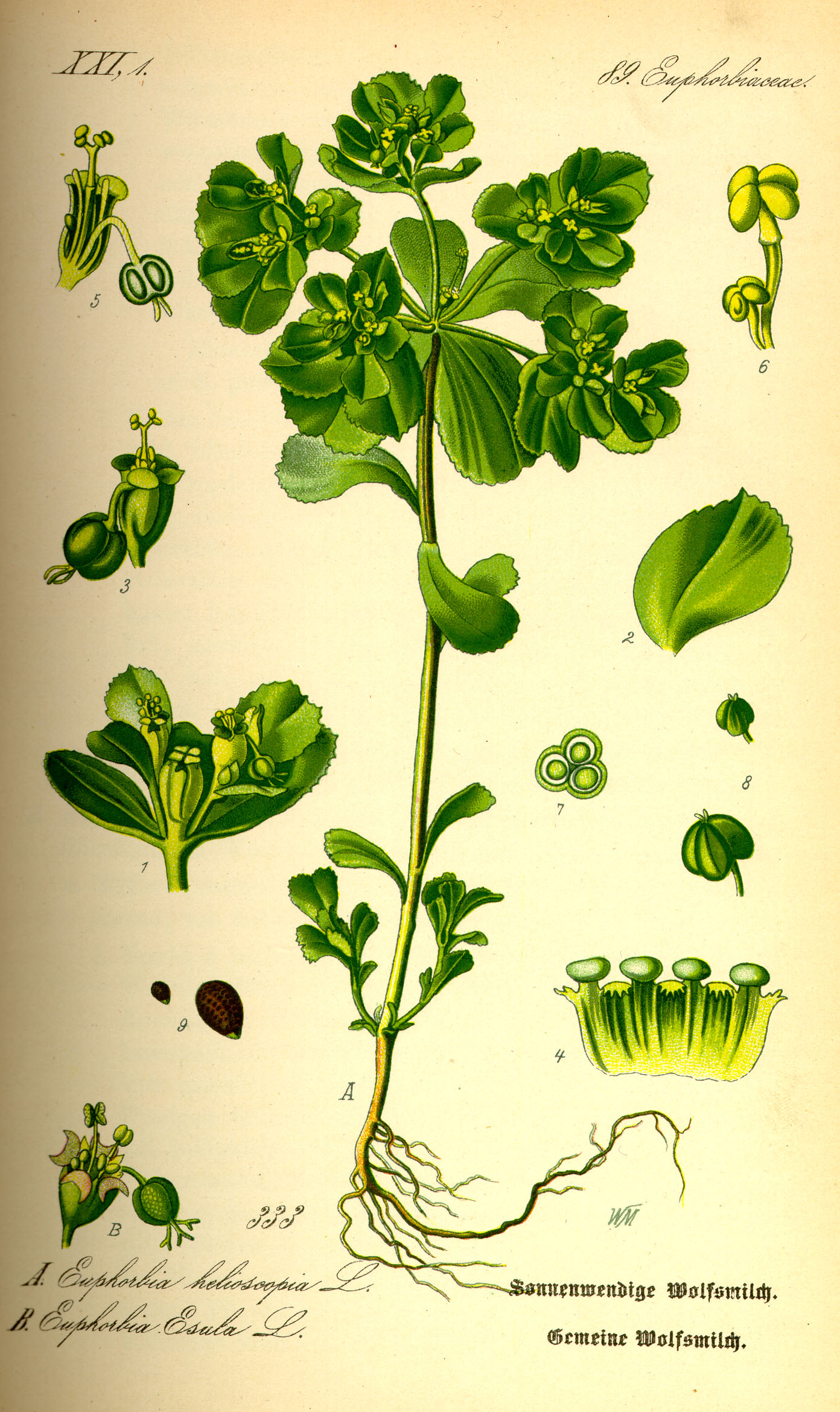 Euphorbia helioscopia; Family:Euphorbiaceae